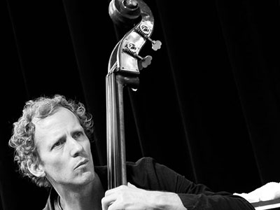 Ben Street